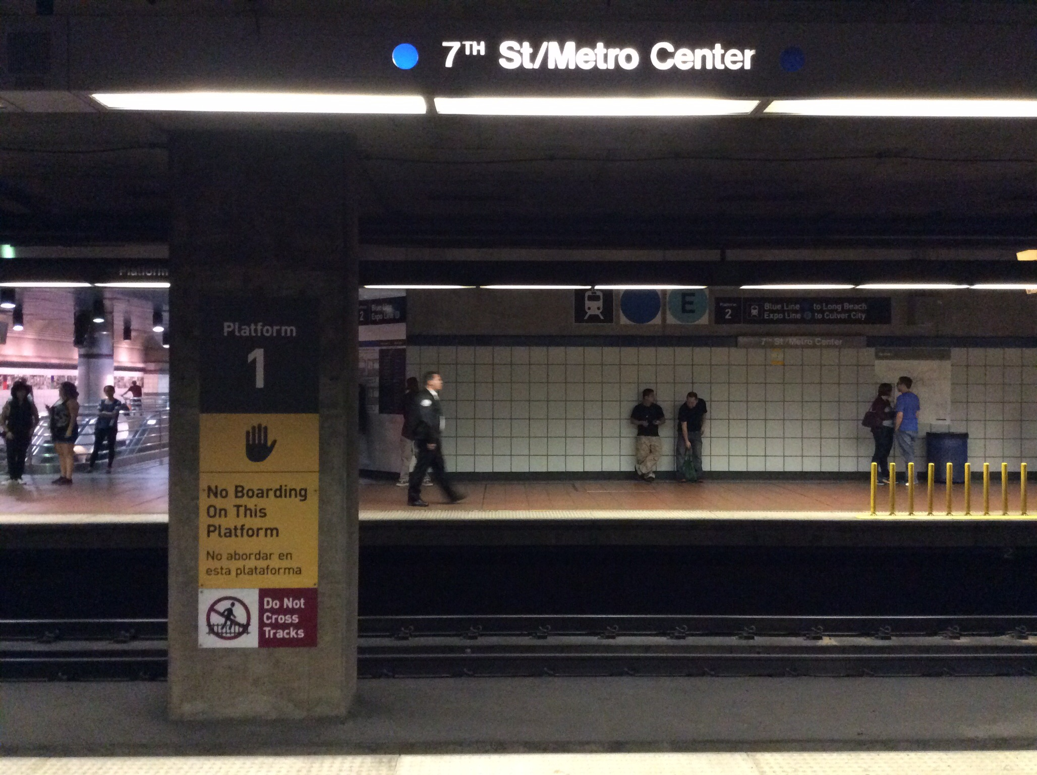 7th Street / Metro Center Station.